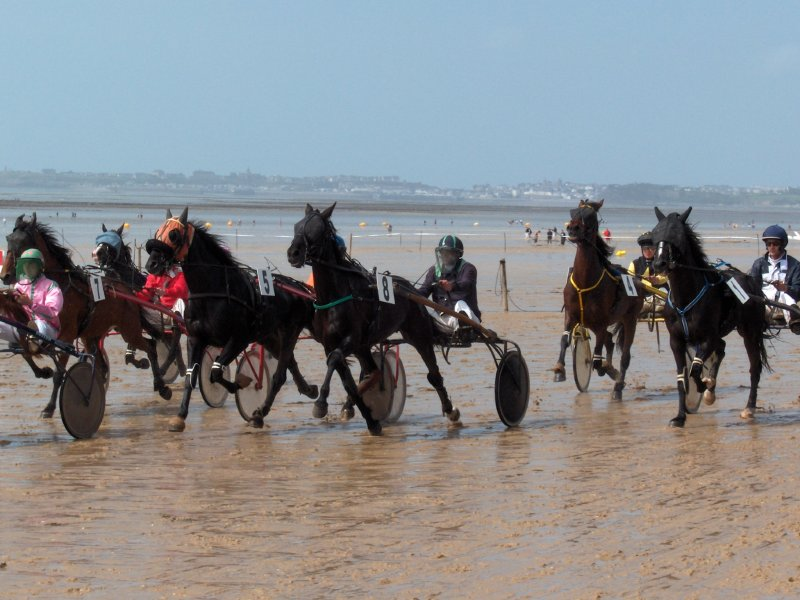 Sulky horse race, Jullouville beach racecourse (Manche, France)